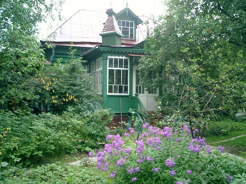 A pre-revolutionary dacha in Malakhovka, near Moscow.